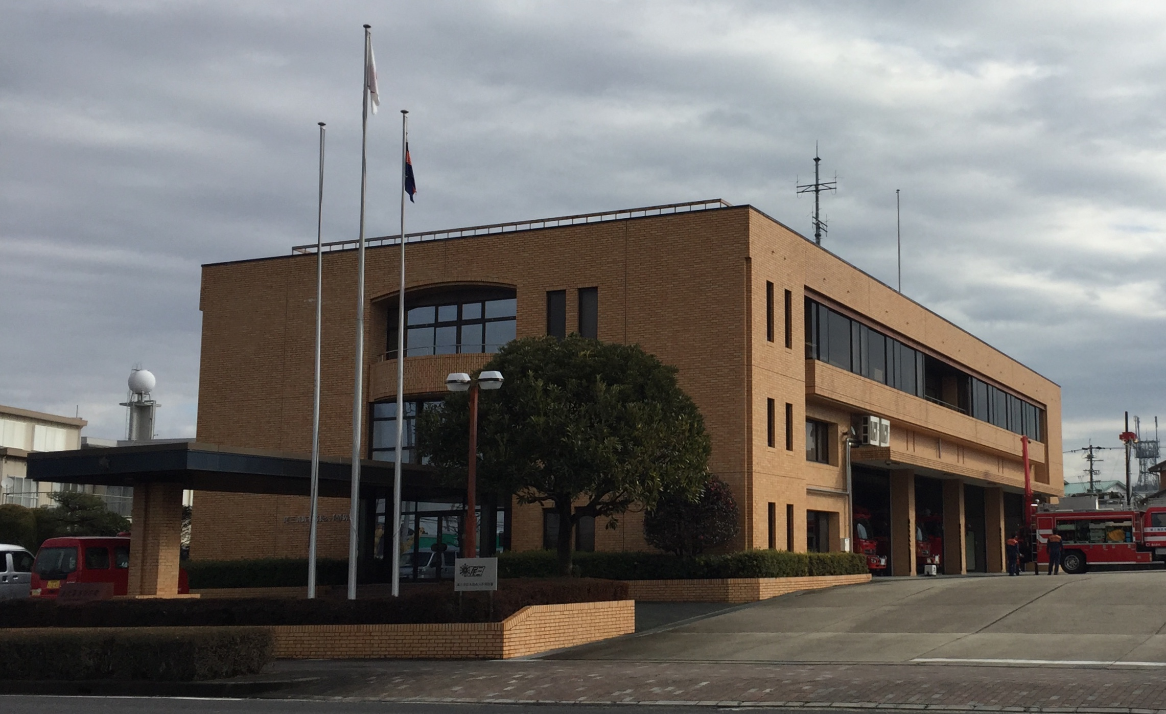 長久手消防署